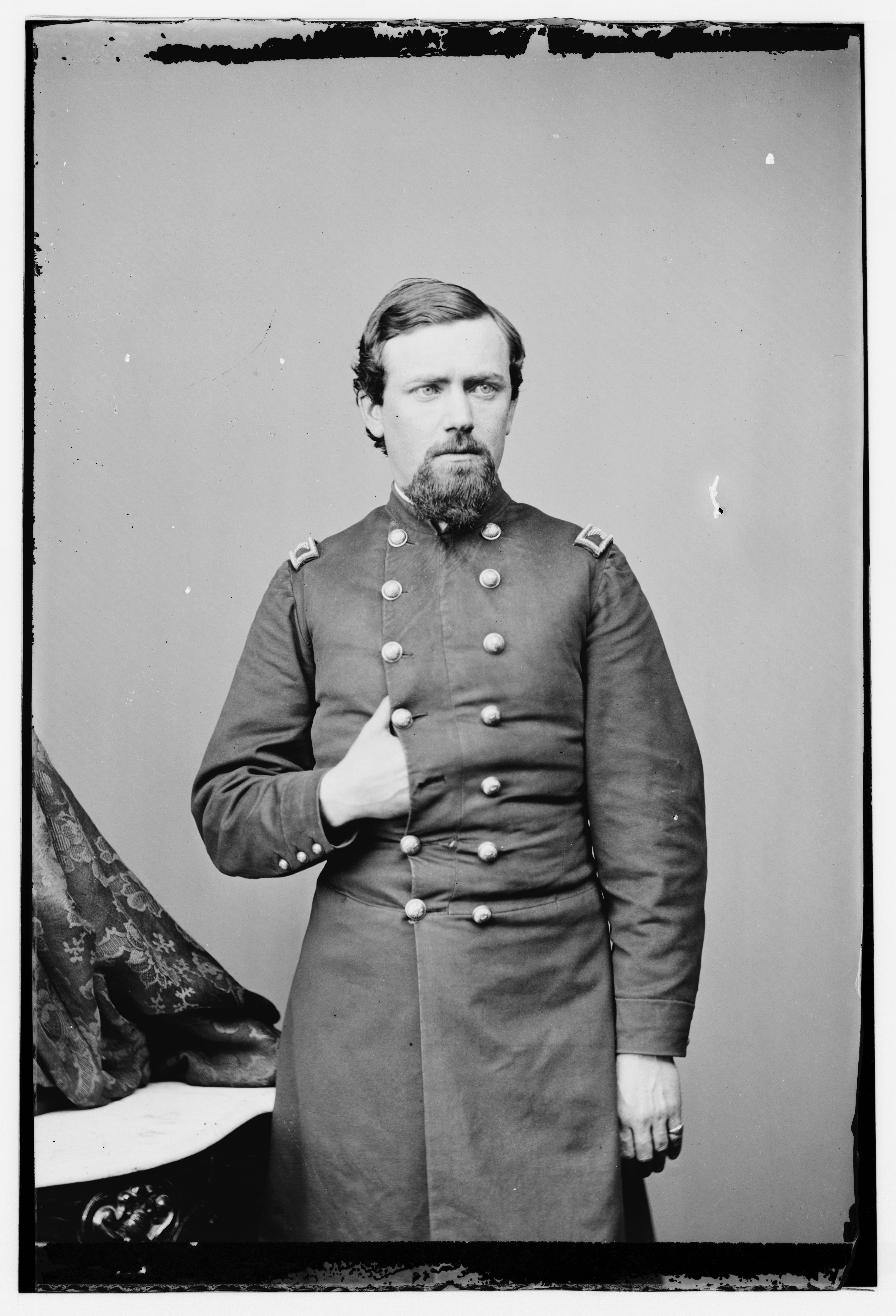 Title: Col. M. Murphy, 182nd N.Y. Infy Physical description: 1 negative